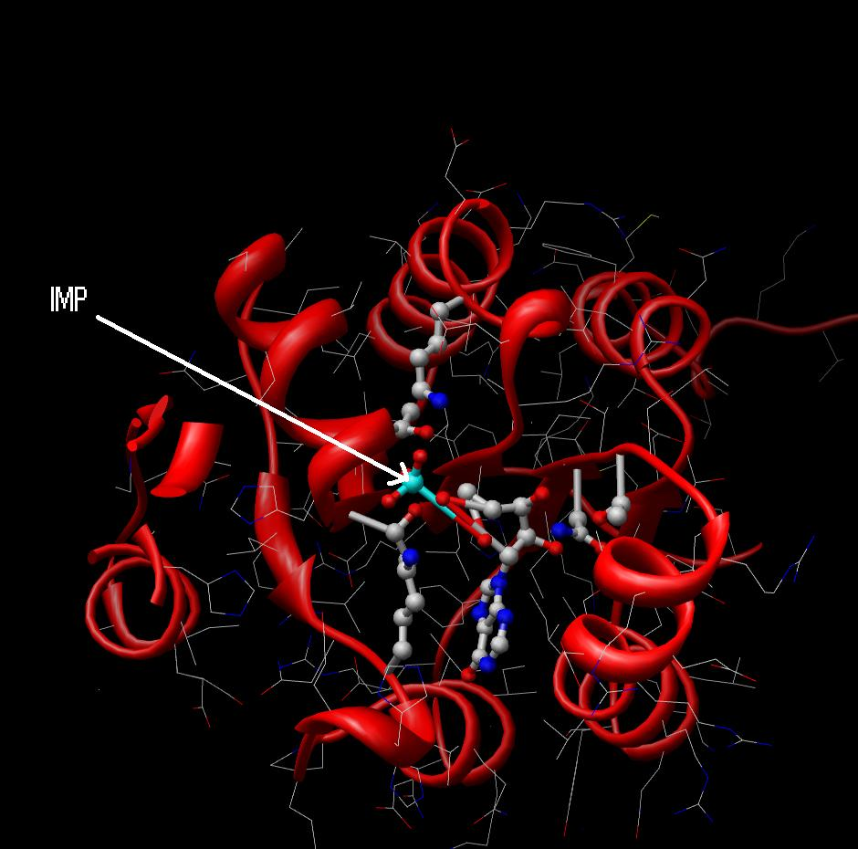 View of the IMP allosteric binding site CPSI in E.coli.